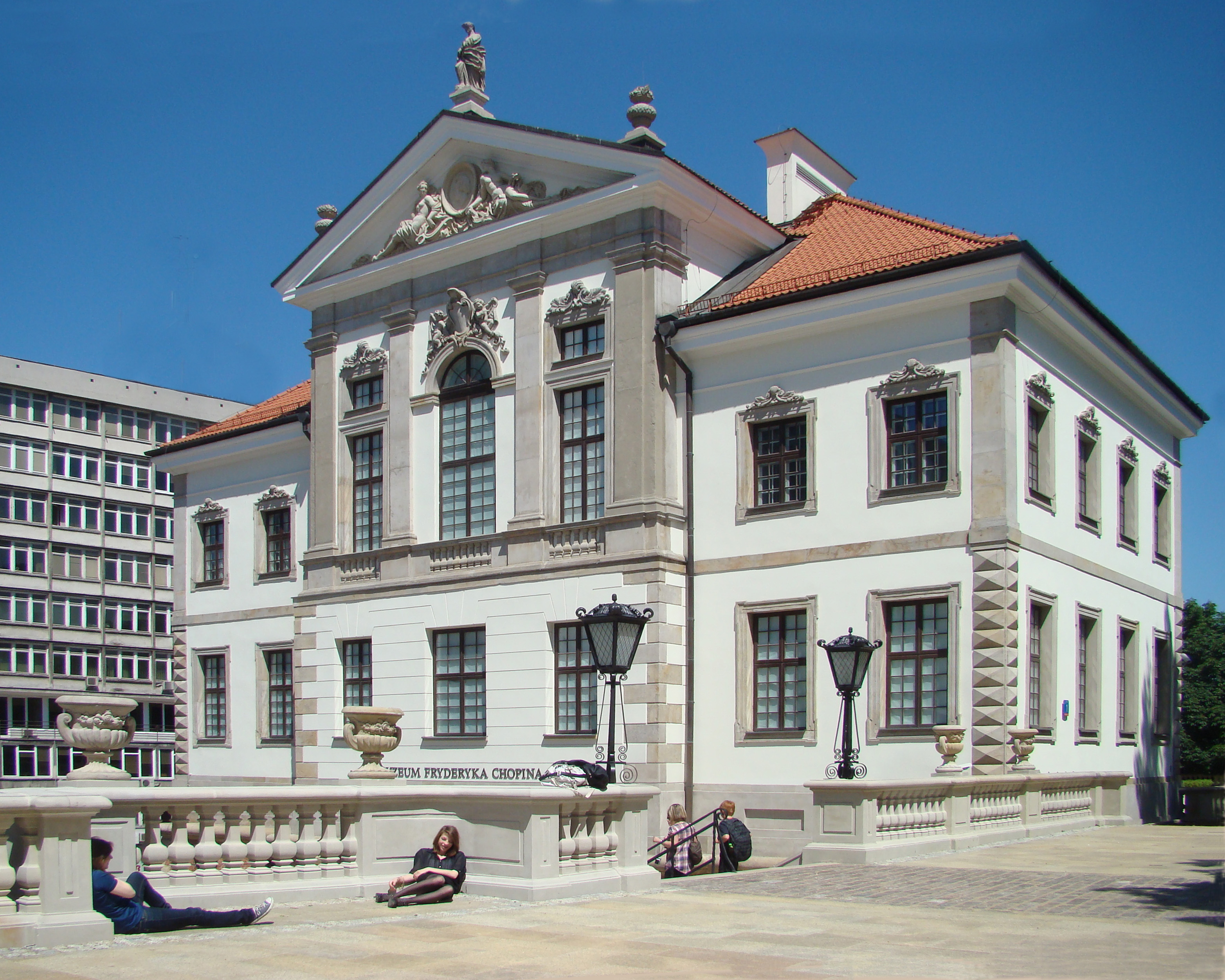 Ostrogski Palace Chopin Museum Warsaw